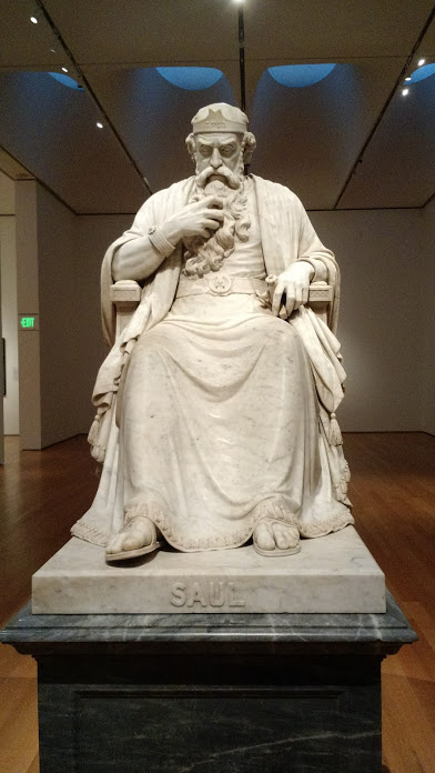 Marble statue of King Saul by William Wetmore Story, in the NC Museum of Art. Carved 1865.